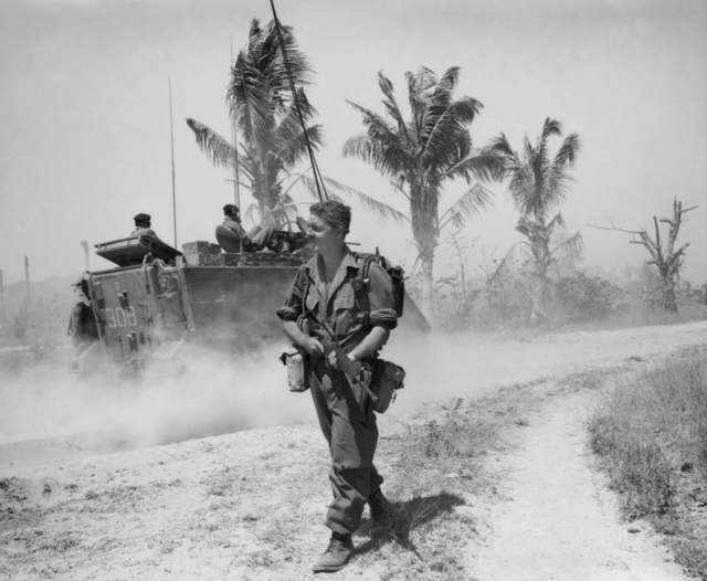 AWM image CRO/68/0327/VN. Nui Dat, South Vietnam. 1968-04. Private Garry Collins of Taranaki, NZ, prepares to move from Fire Support Base (FSB) Herring, south of the 1st Australian Task Force (1ATF) Base during Operation Cooktown Orchid. Private Collins is a member of W Company, 2RAR/NZ (ANZAC) (The ANZAC Battalion comprising 2nd Battalion, The Royal Australian Regiment and a component from the 1st Battalion, Royal New Zealand Infantry Regiment), (2RAR). Note the armoured personnel carrier (APC) in the background.